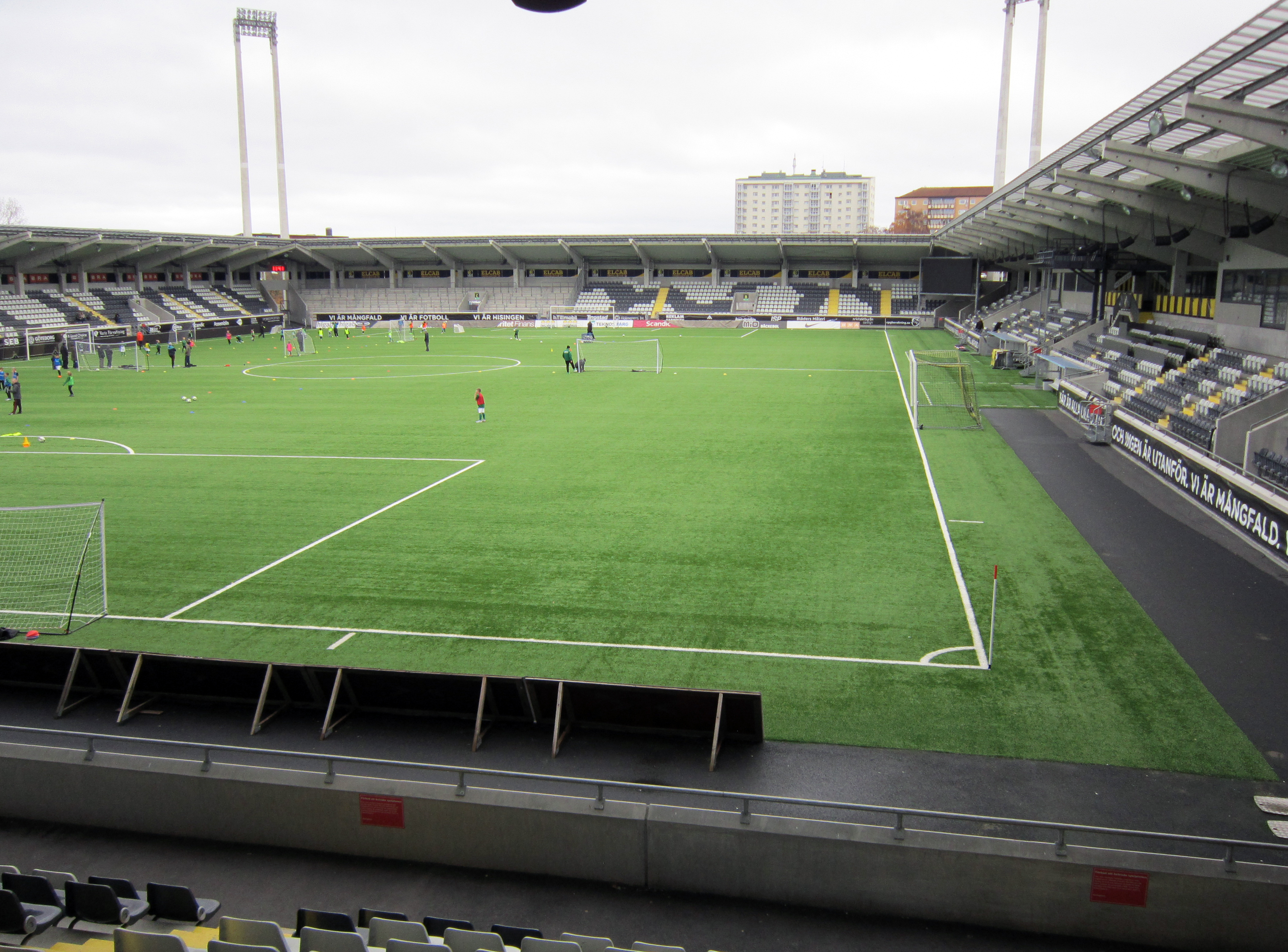 Bravida Arena: Hisingen, Göteborg